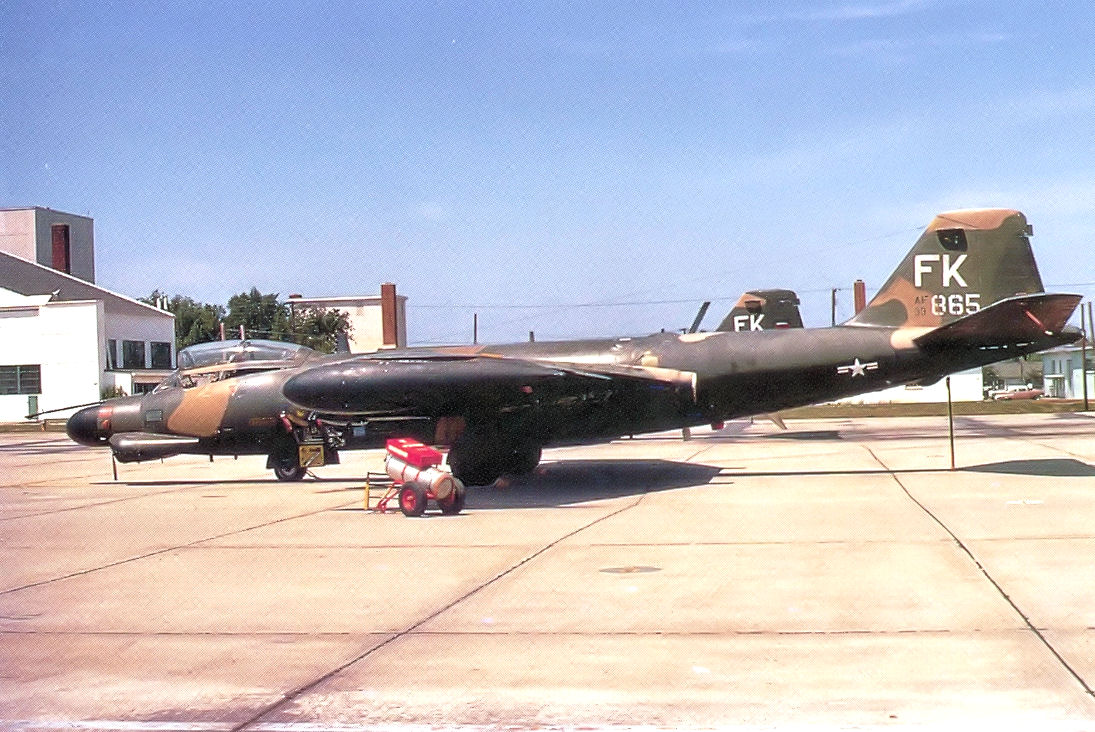 13th Bombardment Squadron Martin B-57B-MA 53-865 1974. Photo taken at Forbes AFB, Kansas shortly after aircraft was returned to the United States and assigned to the 190th Tactical Reconnaissance Group, Kansas Air National Guard. Was programmed on being converted to a B-57G but instead was sent to AMARC instead for scrapping.